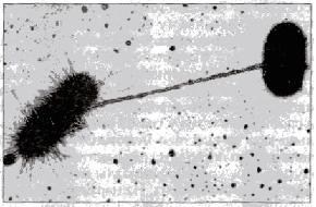 image